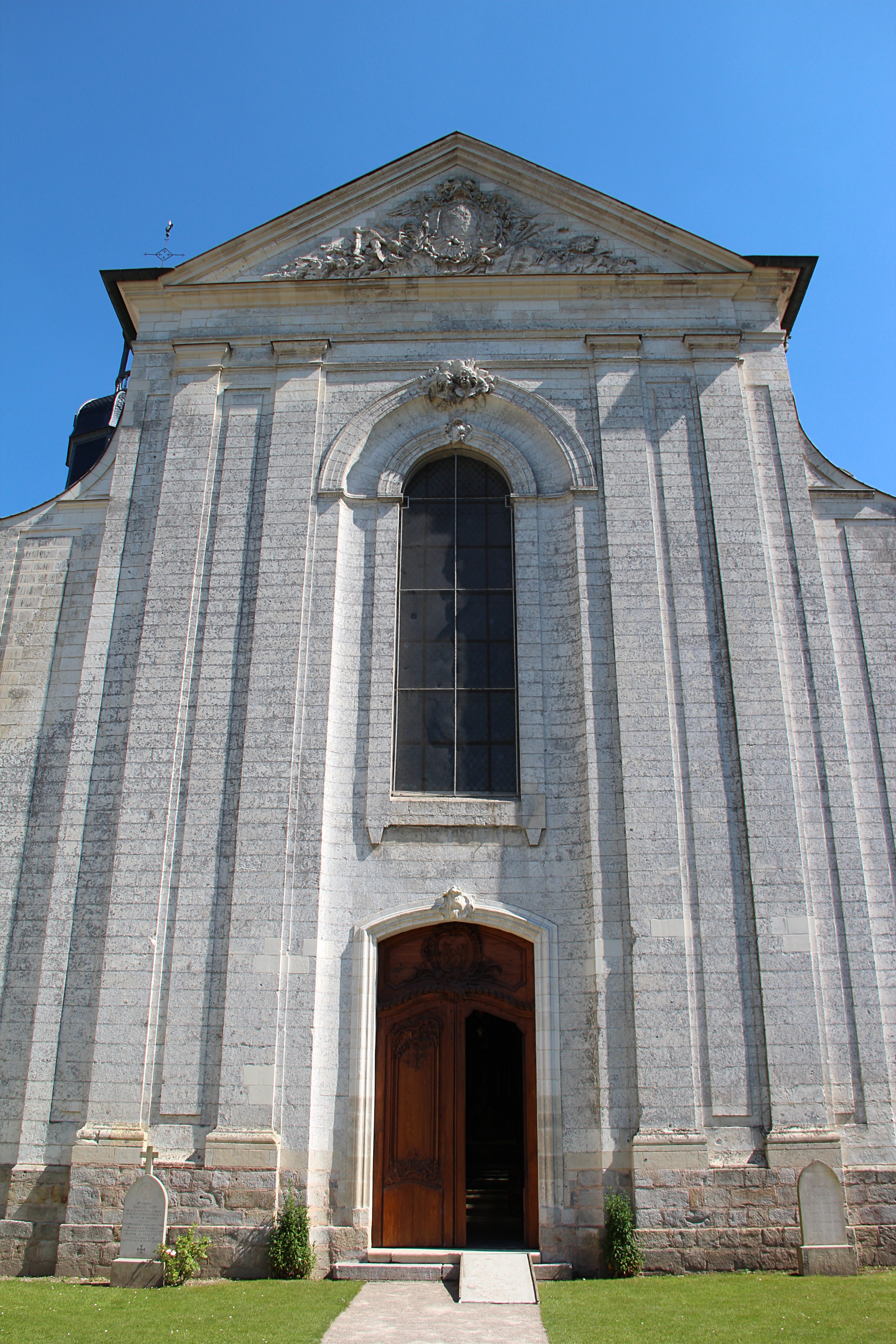 Facade of the abbey church Valloires Abbey, (Somme, France).